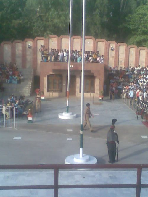 This is the snapshot of Ganda singh border Kasur. Flag lowering ceremony is underway.